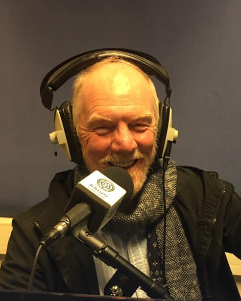 Photograph of Tony Quinn appearing on air as the character 'Edouard Lapaglie' at the studios of Radio Yorkshire, Leeds UK